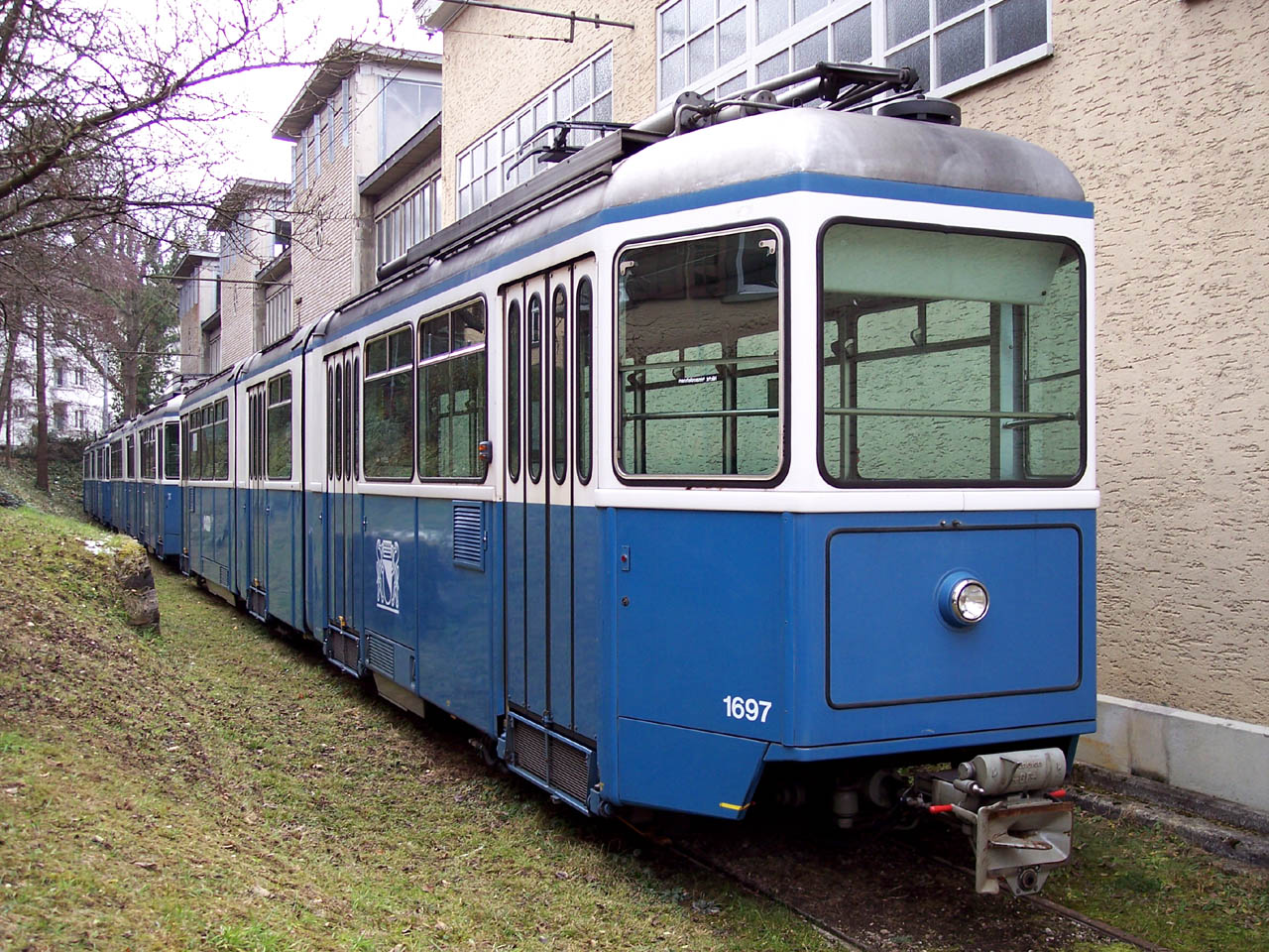 Trams in Zürich: Be 4/6 "Blinde Kuh" cabless motor cars are used behind matching Be 4/6 "Mirage" trams on the Zürich tram system. This example was parked up in Wollishofen depot.